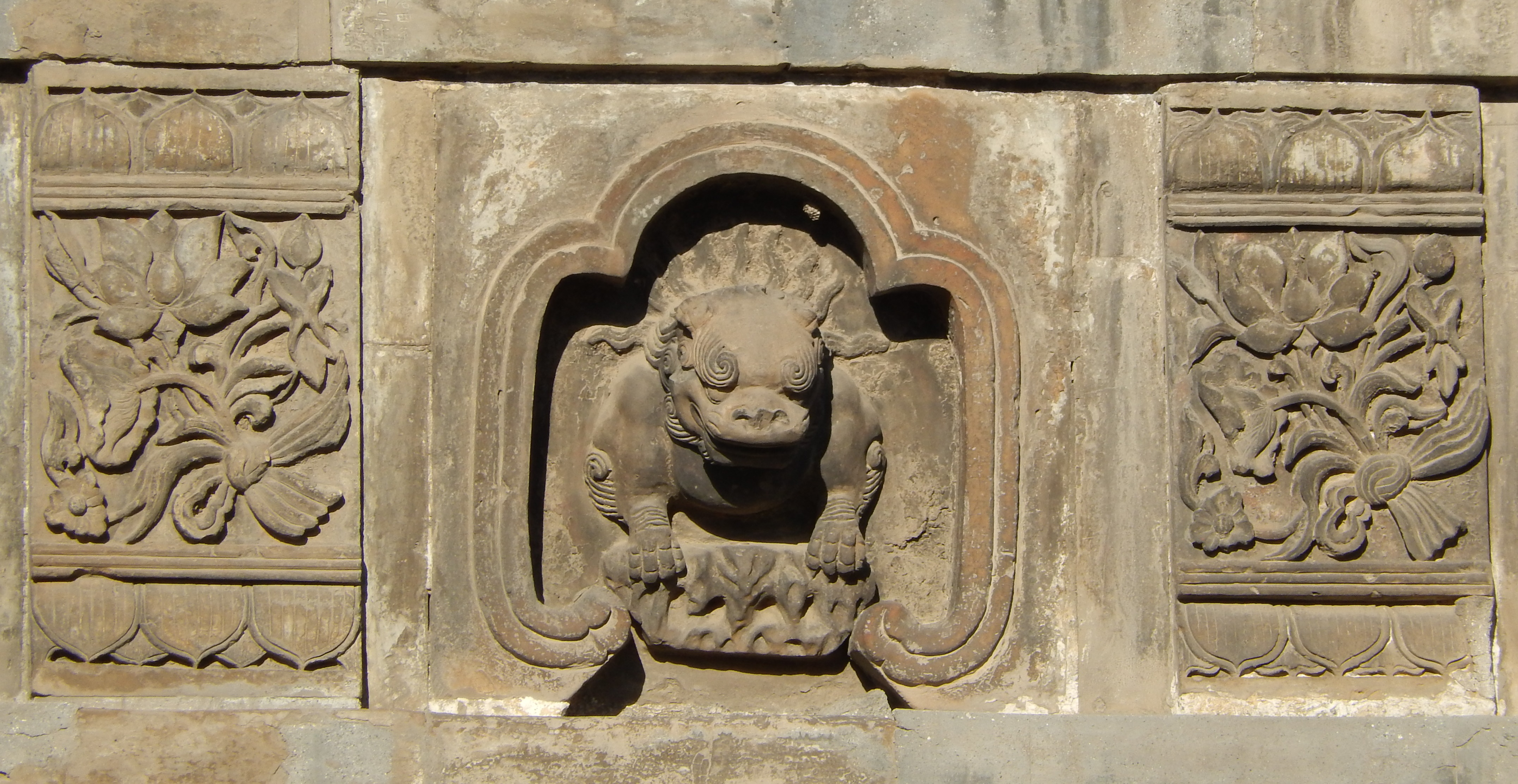 Detail of the frieze (south-east side) around the Liao dynasty octagonal brick pagoda at Tianning Temple, Beijing.